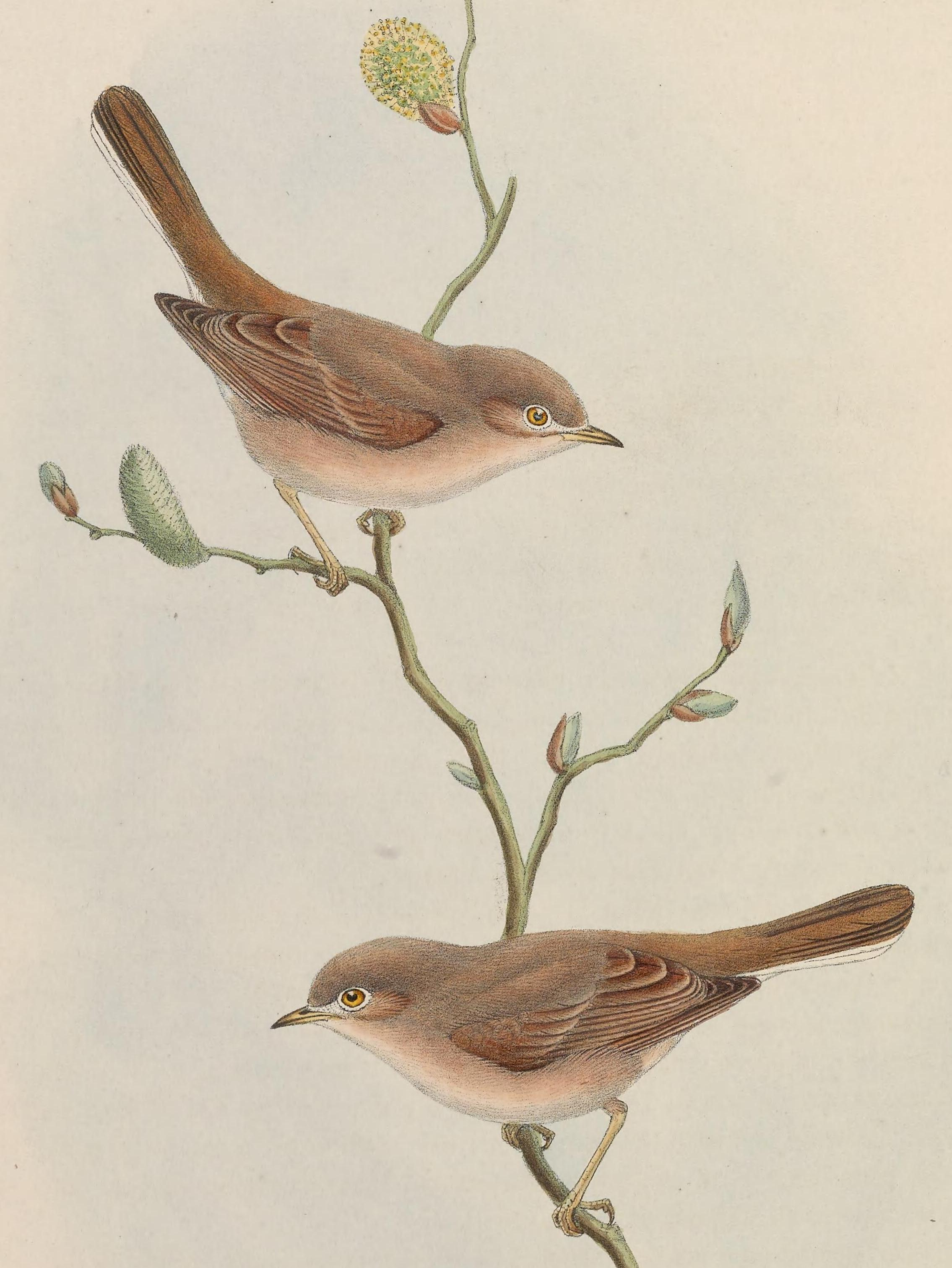 Sylvia nana